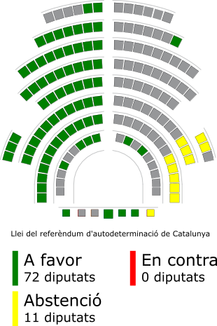 Referendum law at Parlament de Catalunya